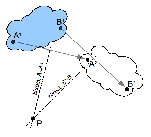 An object rotates (in 2D space) around a fixed point, a "discrete pole".